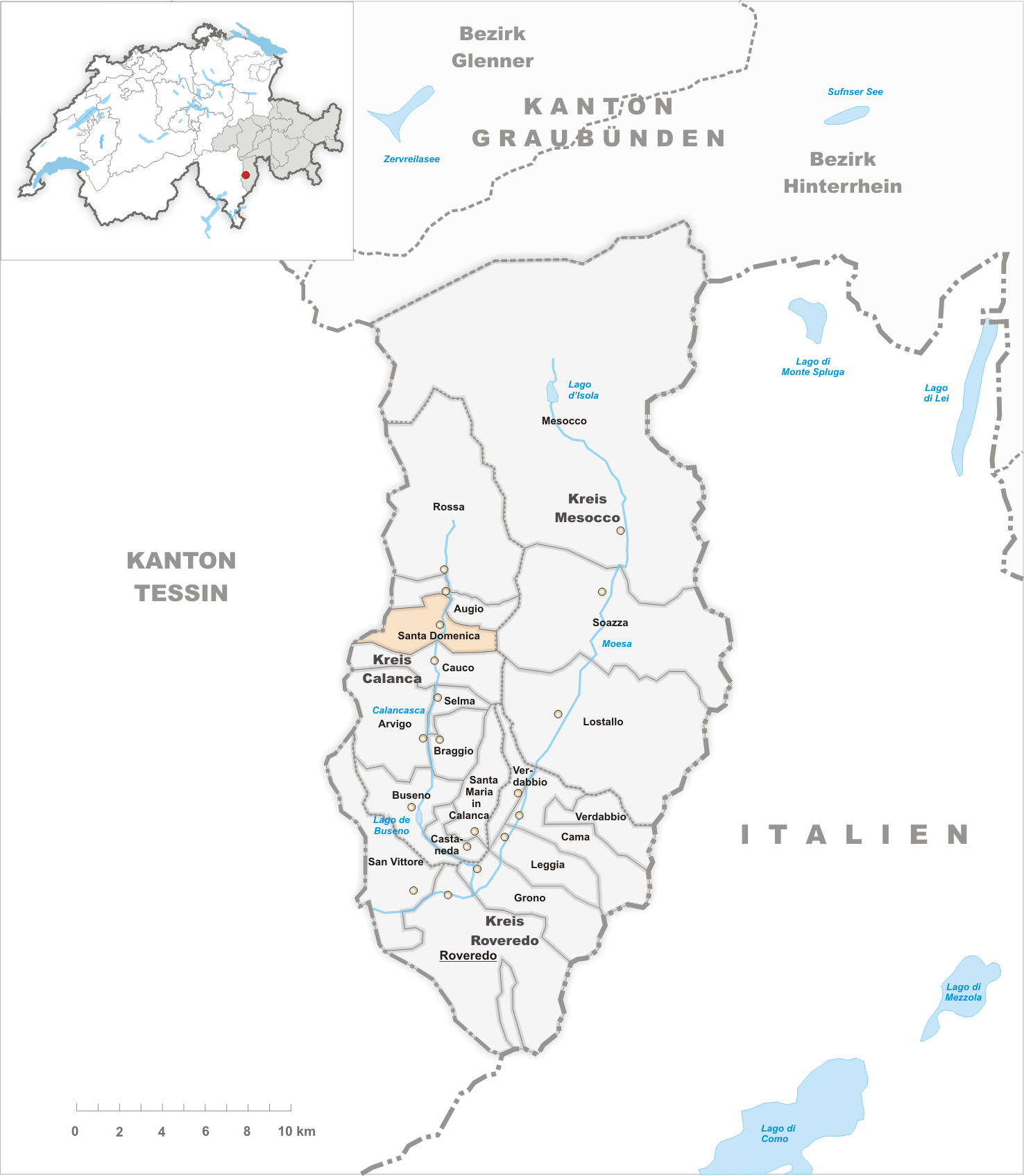 Municipality Santa Domencia Artist: Tschubby